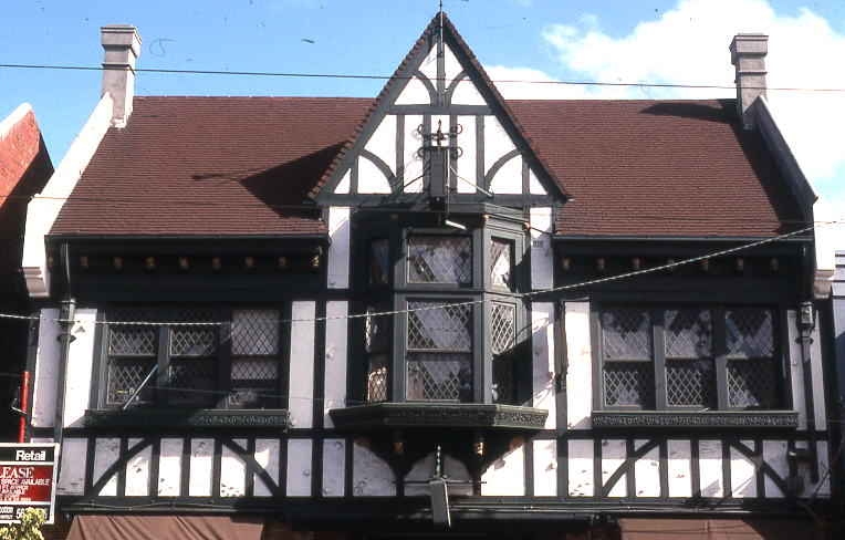 shops, toorak, australia